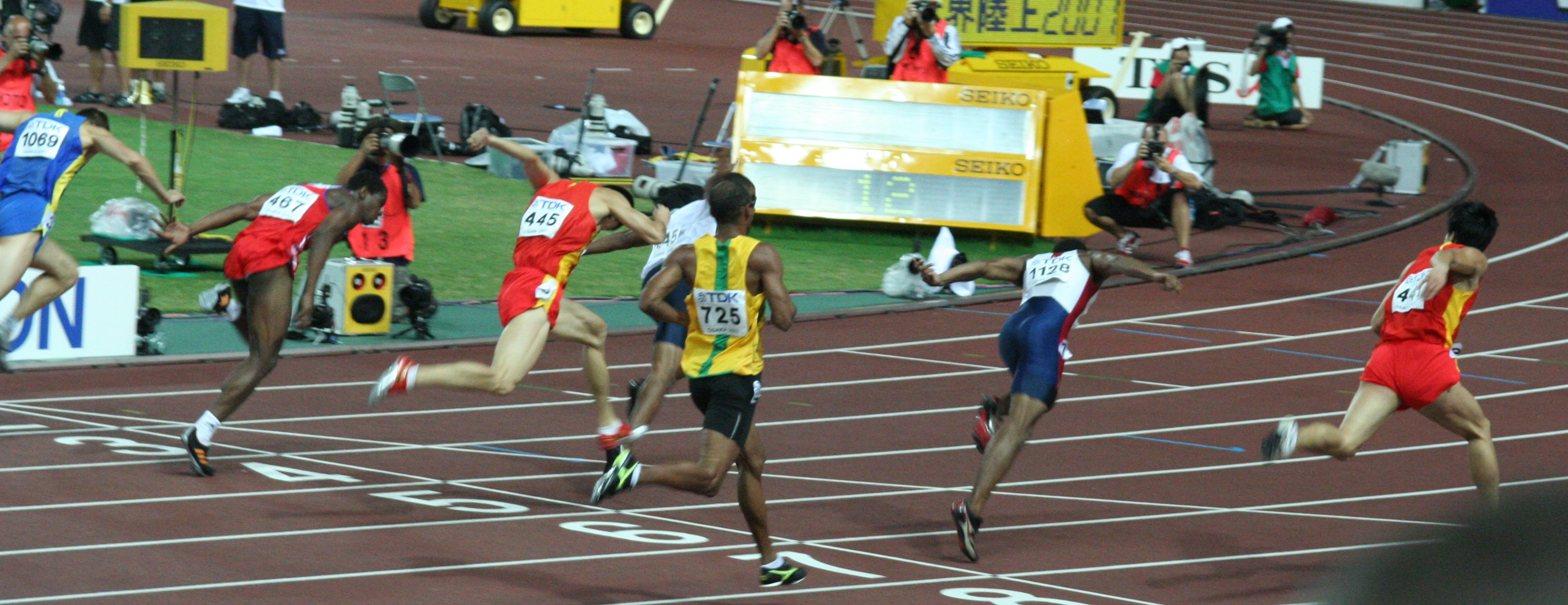 World Athletics Championships 2007 in Osaka - at the finishing line of the men*s 110 metres hurdles final - winner Xiang Liu is at the right